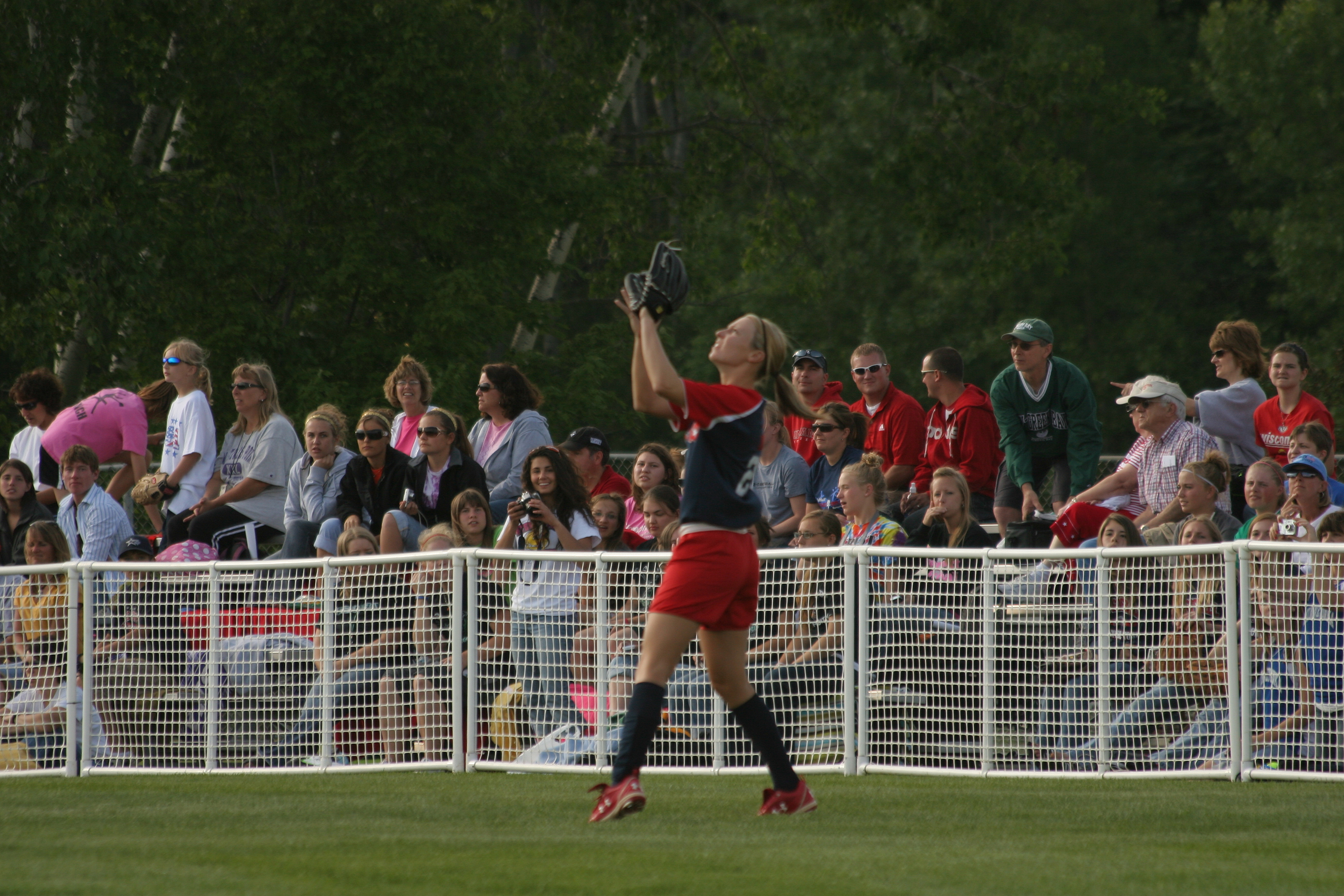 Center fielder Laura Berg snags a fly ball during batting practice.